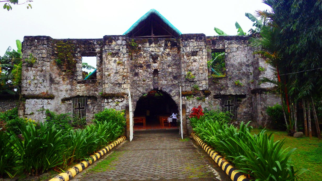 facade